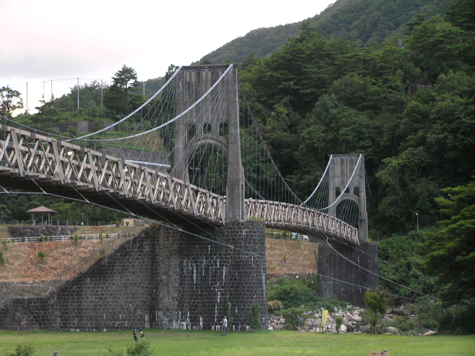 Momosuke-bridge